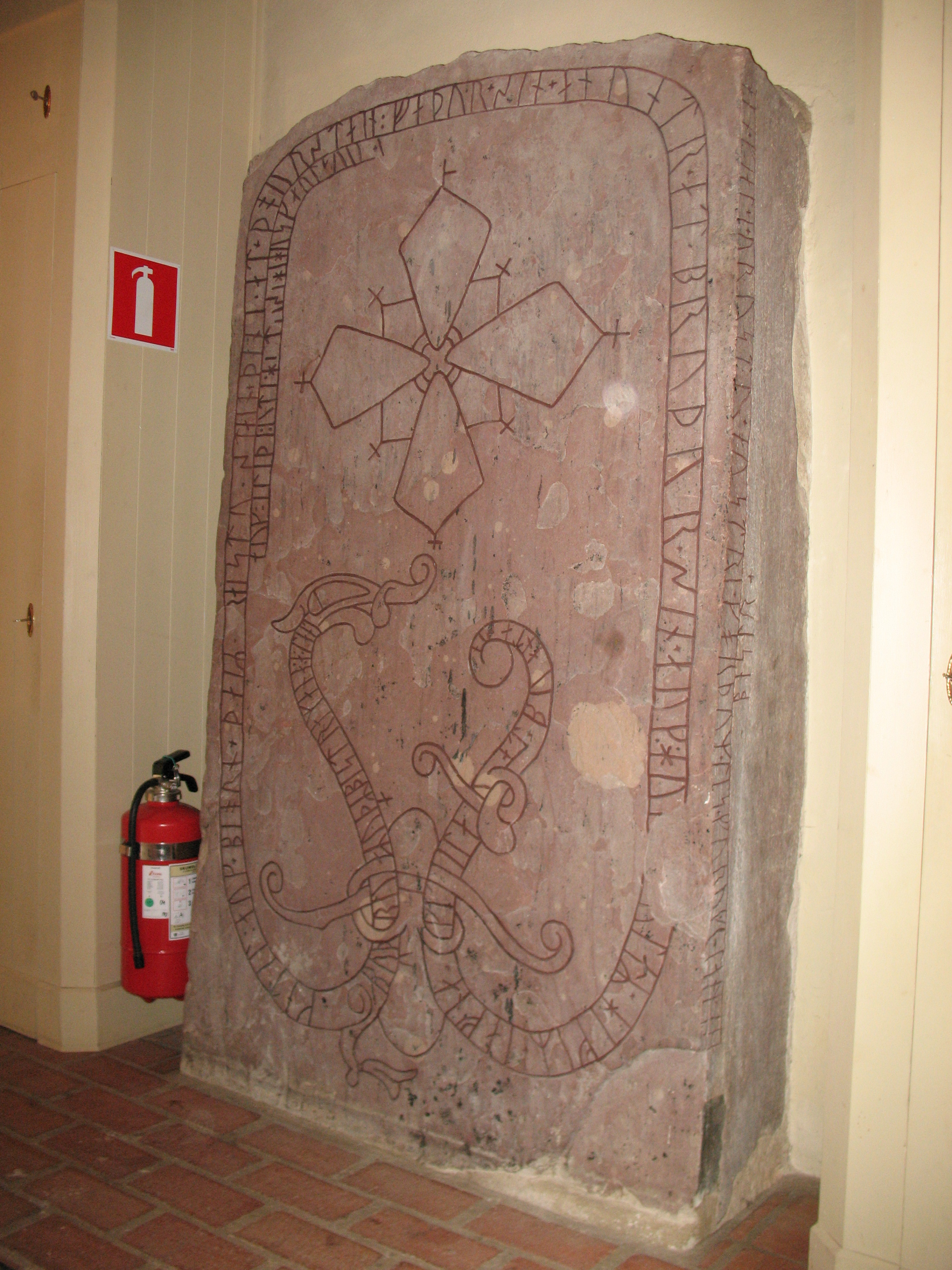 runestone Sö 338 in Turinge Church, Nykvarn Municipality, Sweden.